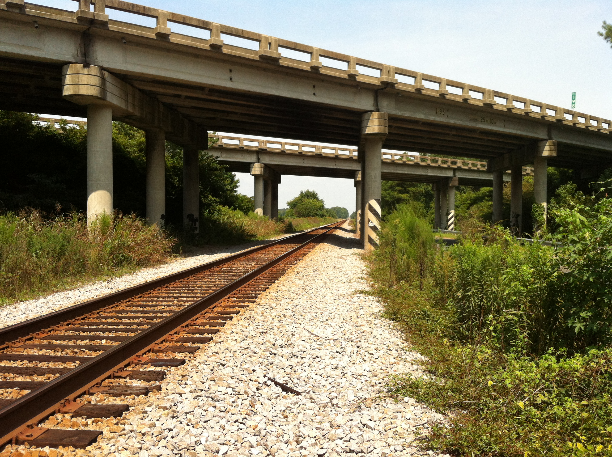 NC/SC Railroad and Interstate Bridge August 2013